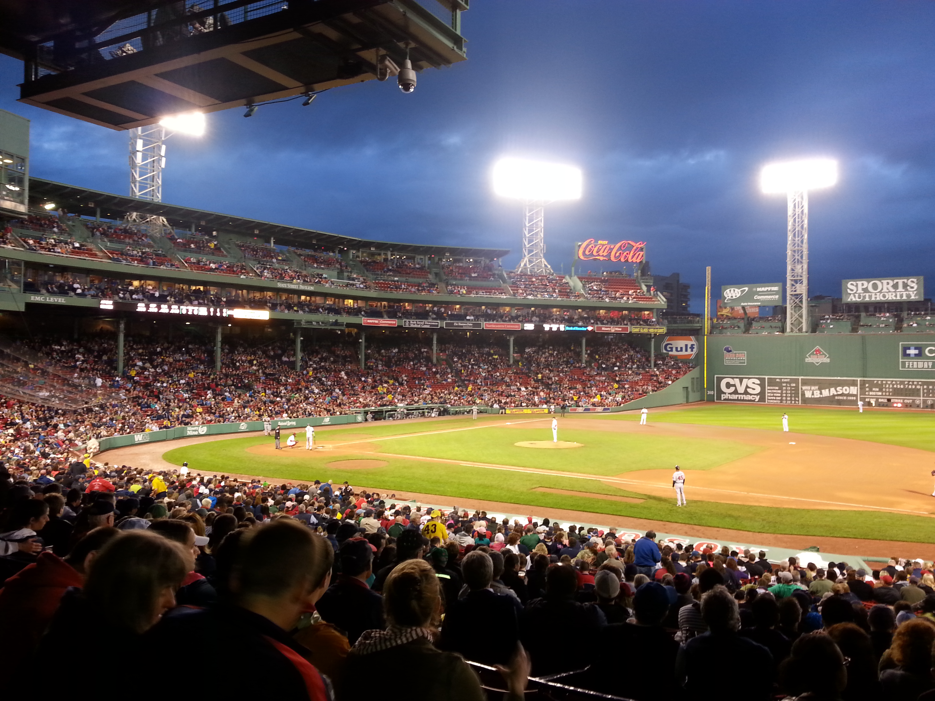 Red Sox vs Twins